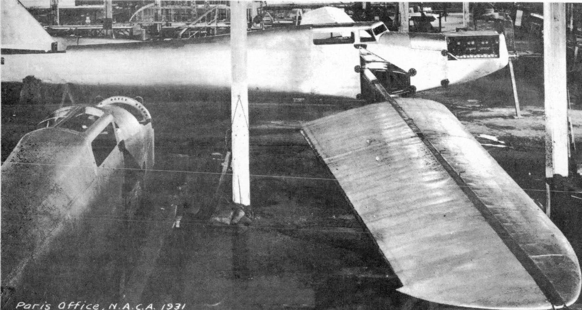 Dewoitine D.33 photo from NACA Aircraft Circular No.146